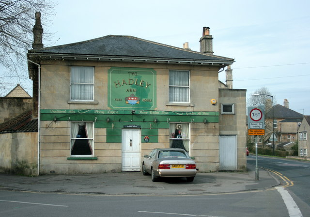 The Hadley Arms, Combe Down Or should that be Arm, a friend of Nelson perhaps? [1]